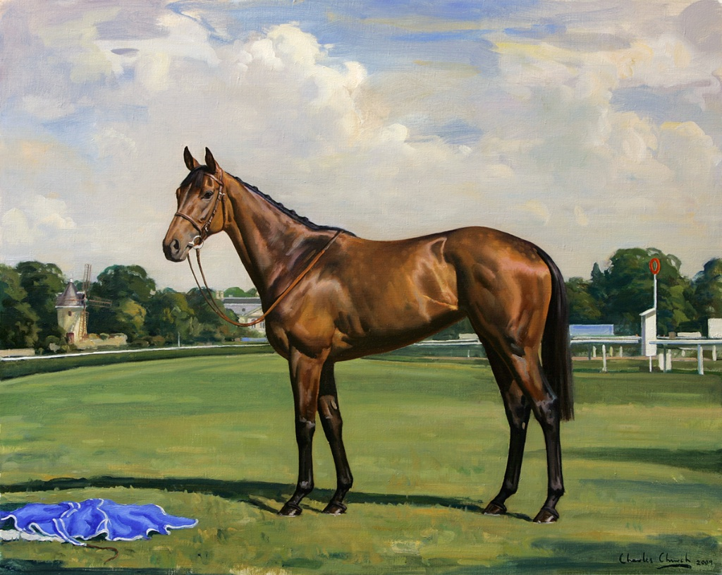 Goldikova: Winner of 14 Group One races, by Dorset-based equine artist Charles Church